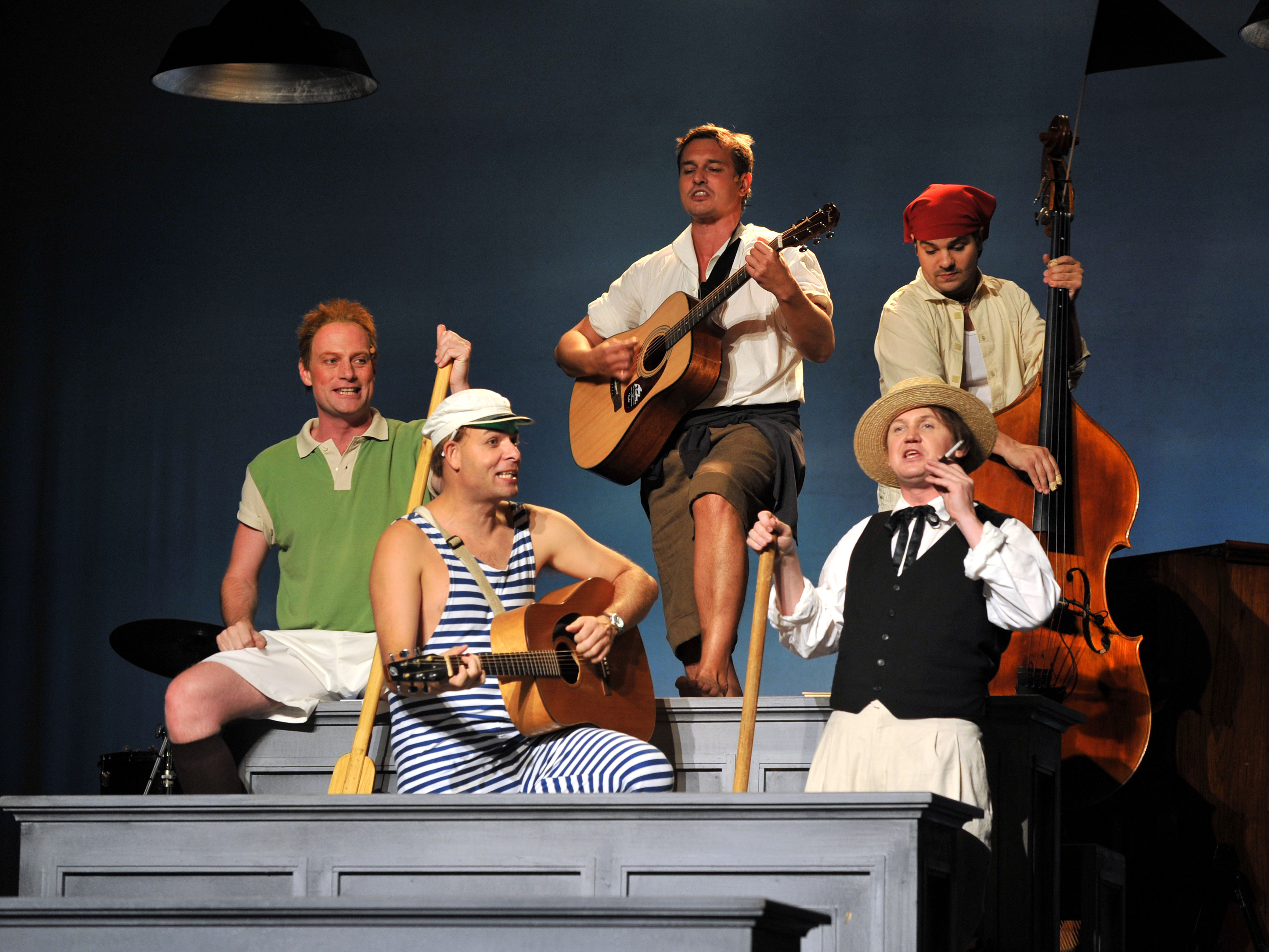 Škola základ života Czech theatre performance (from the left: Igor Ondříček, Viktor Skála, Petr Štěpán, Milan Němec, Alan Novotný)